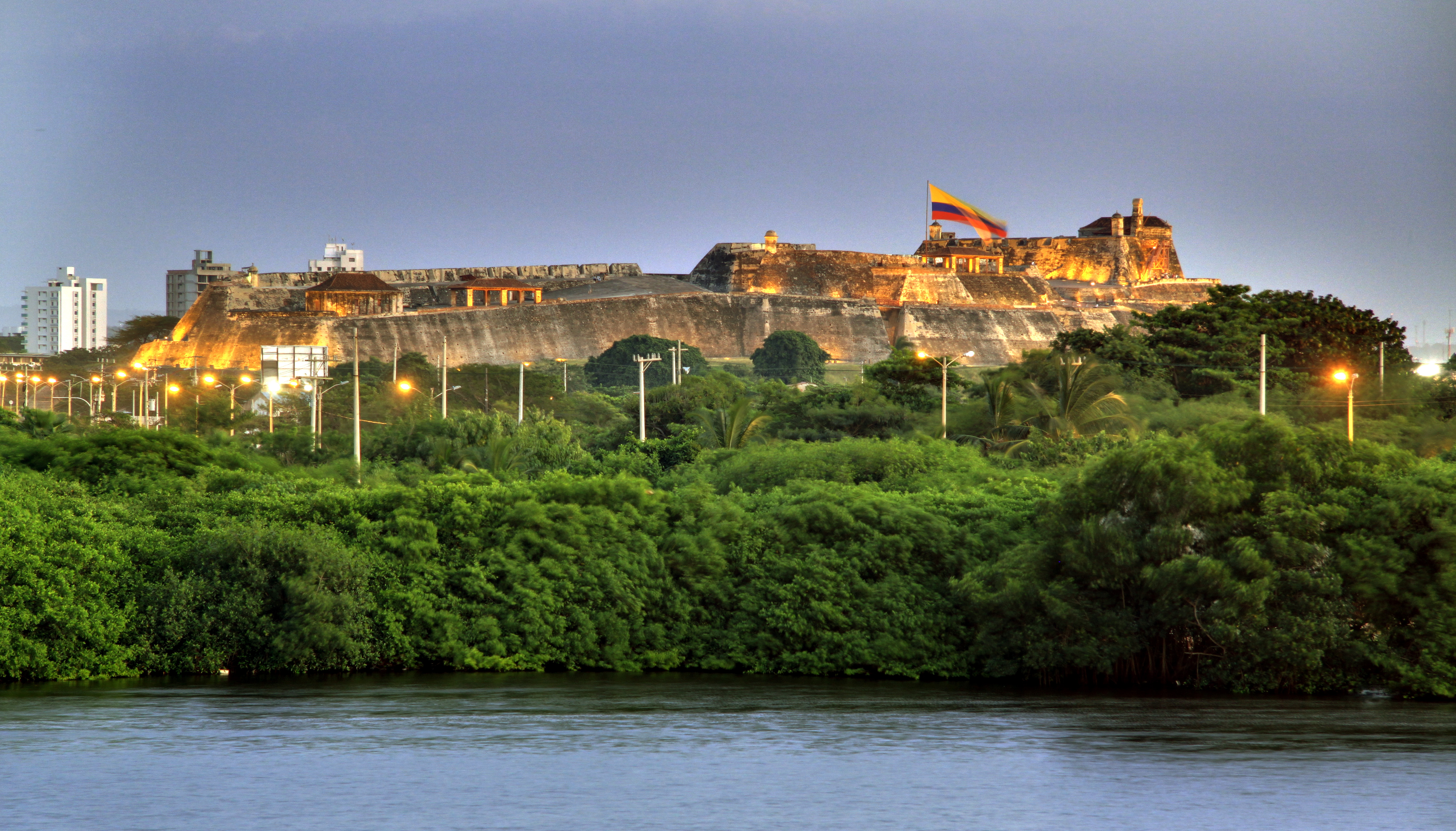 Please, have this description accessible to all by translating it in different languages.